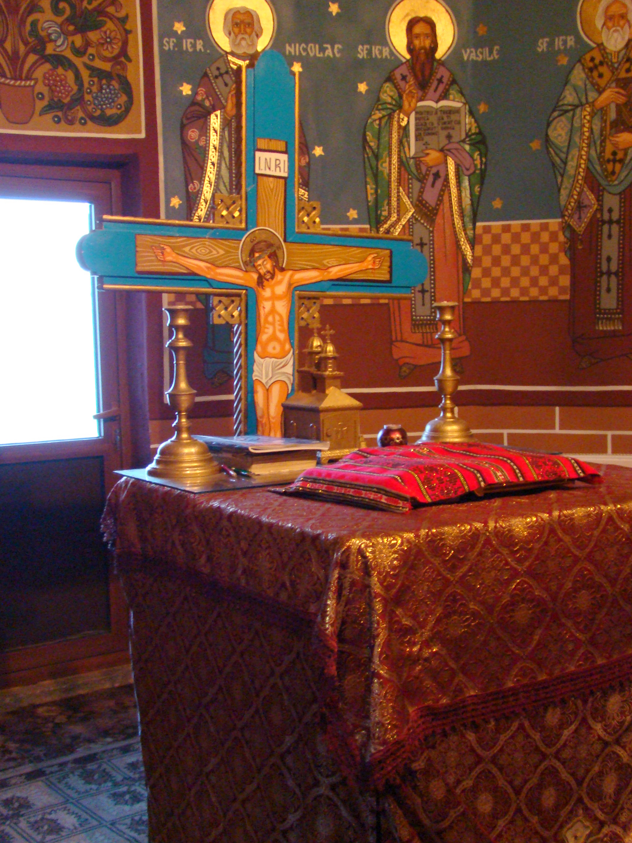 Wooden church in Vărzăroaia, Argeș county, Romania